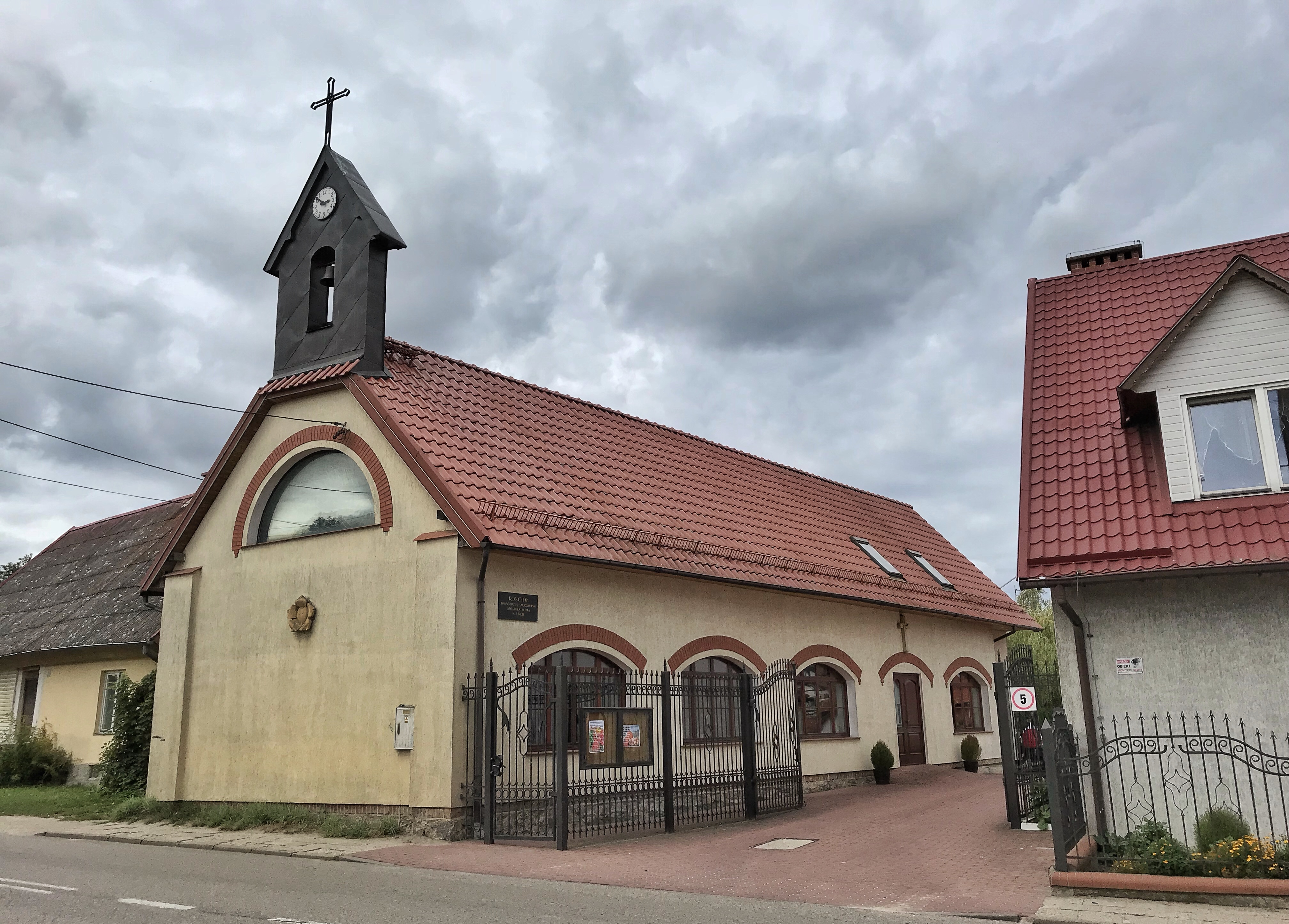 Peter the Apostle Lutheran Church in Ukta